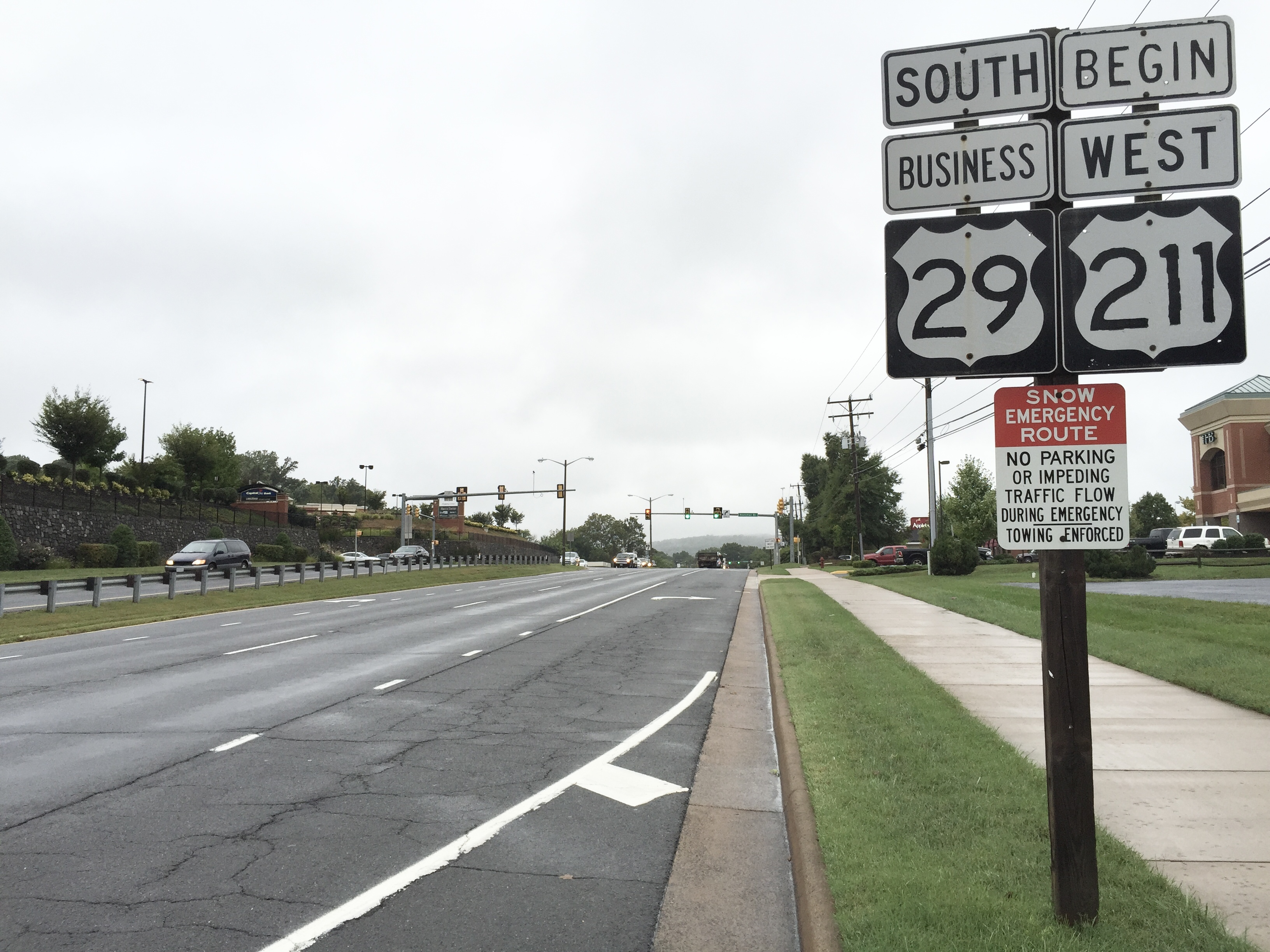 View south along U.S. Route 29 Business and west along U.S. Route 211 (Lee Highway) between Blackwell Park Lane and Fletcher Drive in Warrenton, Fauquier County, Virginia